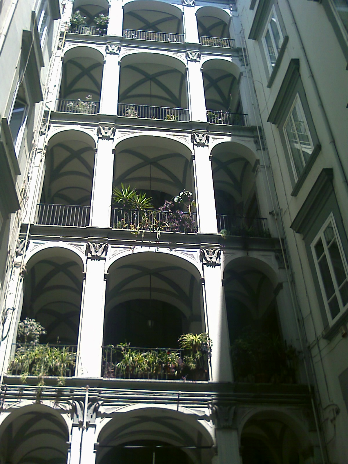 Palazzo Tufarelli: staircase